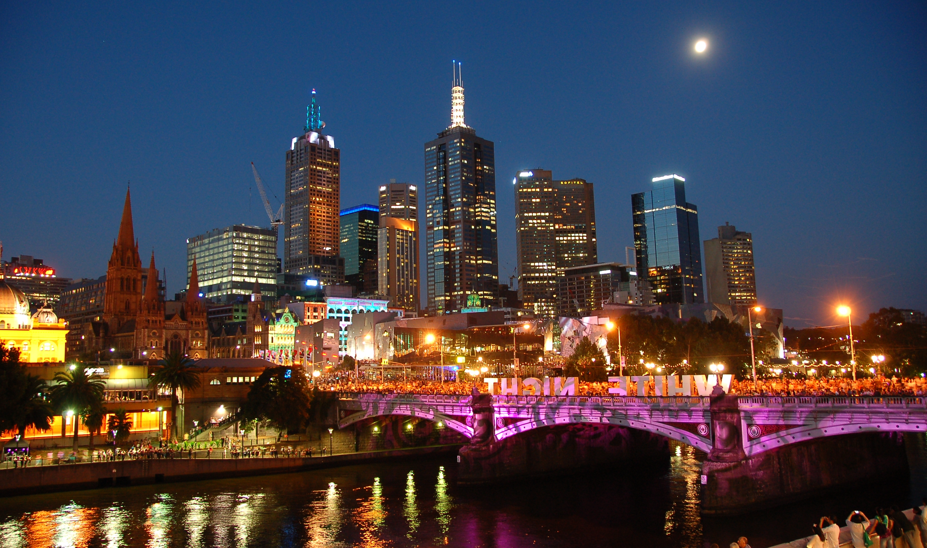 Melbourne was the first city in Australia to host a White Night event.